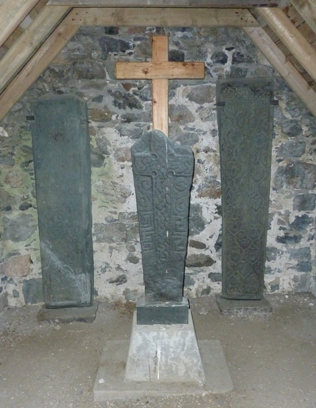 Cille Bharra, Barra, Outer Hebrides, Scotland - Kilbar Stone (replica) in northern chapel